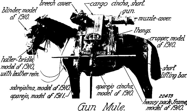 Diagram of transportation of QF 2.95 inch Mountain Gun barrel by mule